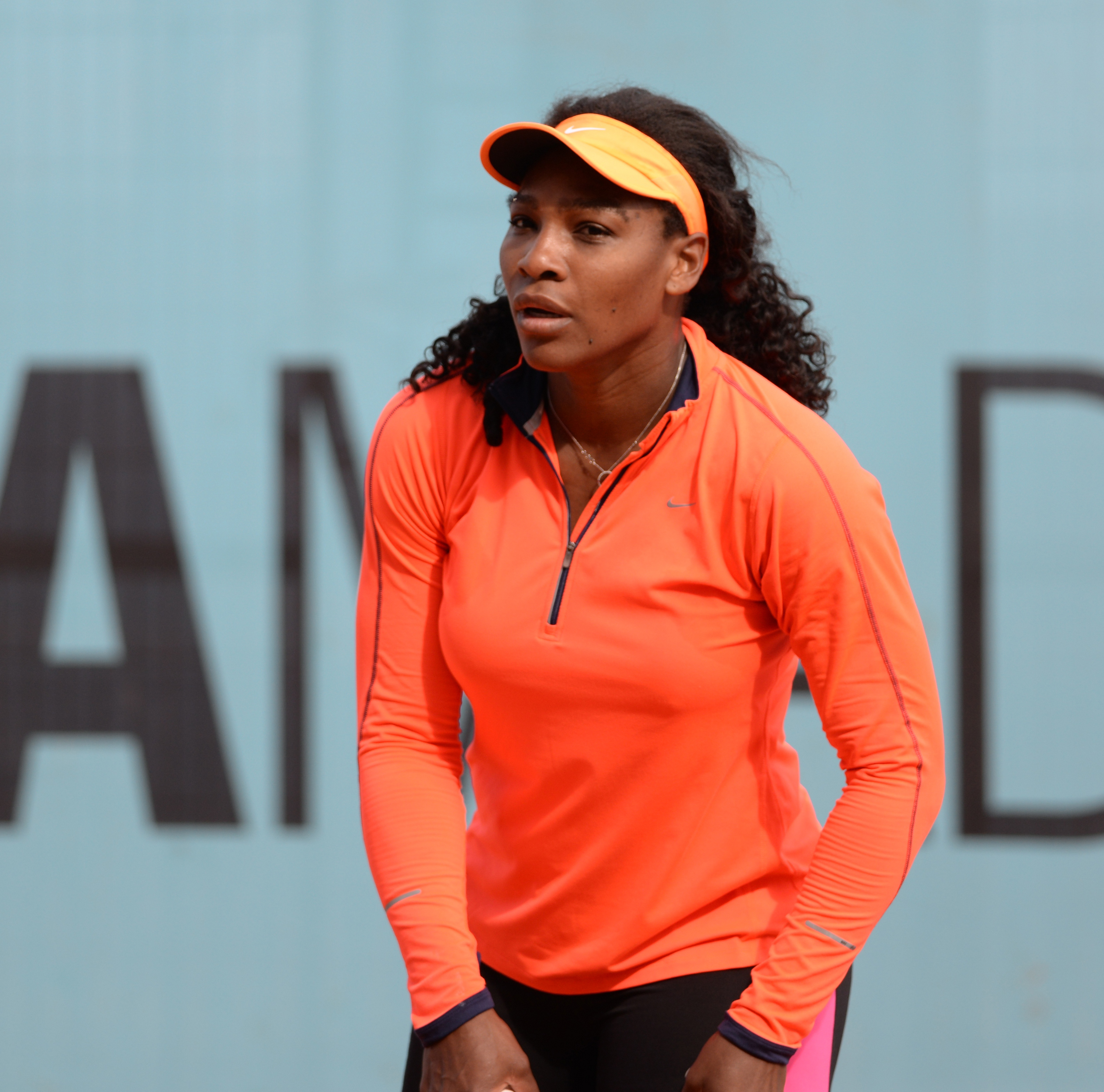 Serena Williams practising under the guidance of coach Patrick Mouratoglou at the 2015 Mutua Madrid Open.